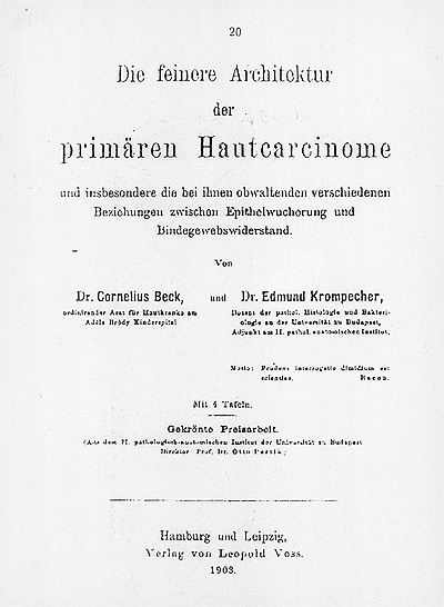 Common book of Ödön Krompecher and Soma Beck